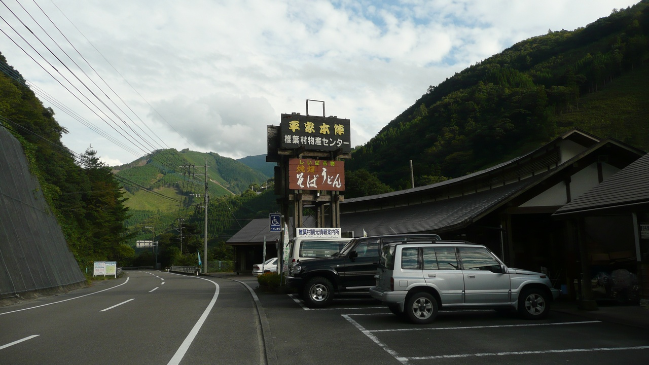 National Route 327 (Shiiba Village, Miyazaki, Japan)